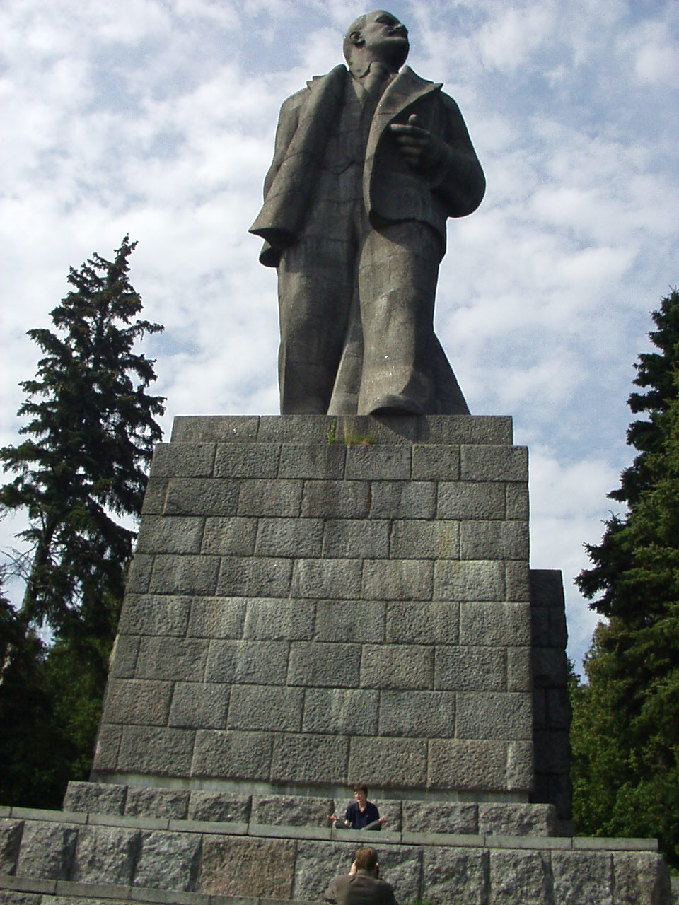 25-meter monument to Lenin near Dubna where Moscow Canal begins